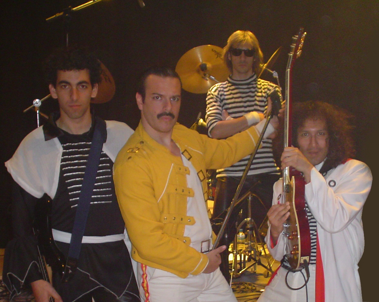 One & Dr. Queen band